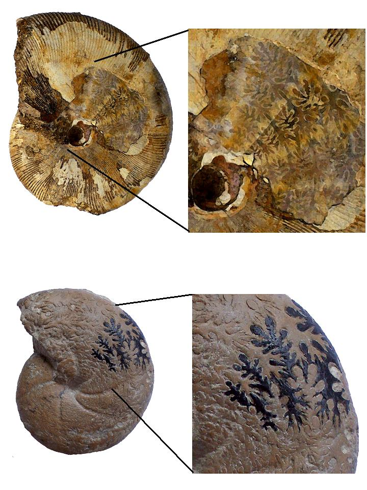 Philloceratitic sutural pattern in two jurassic ammonites: Phylloceras (above) and Calliphylloceras (beneath).